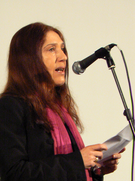 Bulgarian poet and literary critic Miglena Nikolchina (on a charity literary reading for Haiti people, House of Cinema, Sofia, Bulgaria)